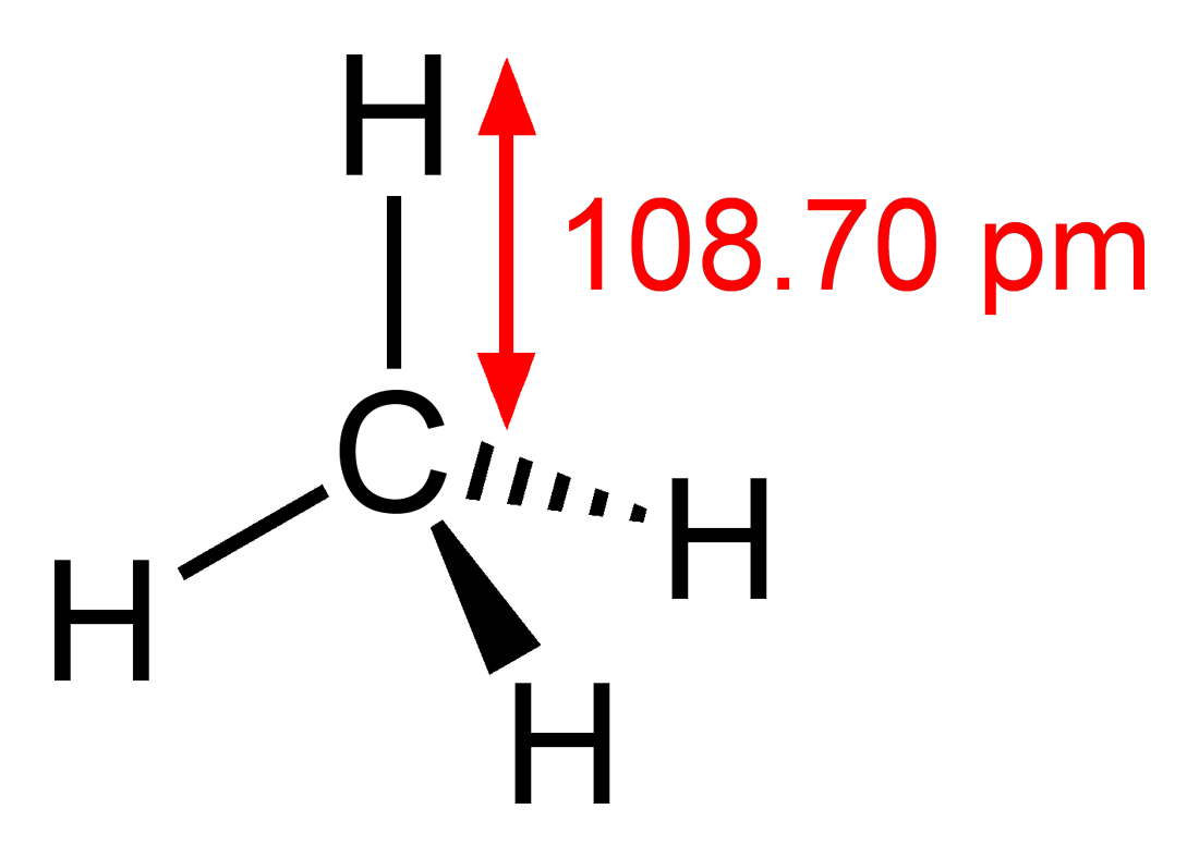 Structural formula of the methane molecule, CH4. The molecule belongs to the Td point group. Structural information (determined by microwave spectroscopy) from CRC Handbook, 88th edition.